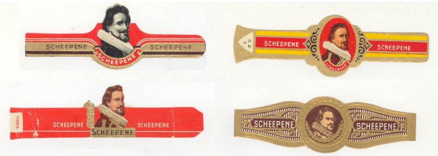 Scheepene sigarfactory Bladel (The Netherlands)from 1867 until 1941. Factory and brandname Brothers van der Pas and sons.